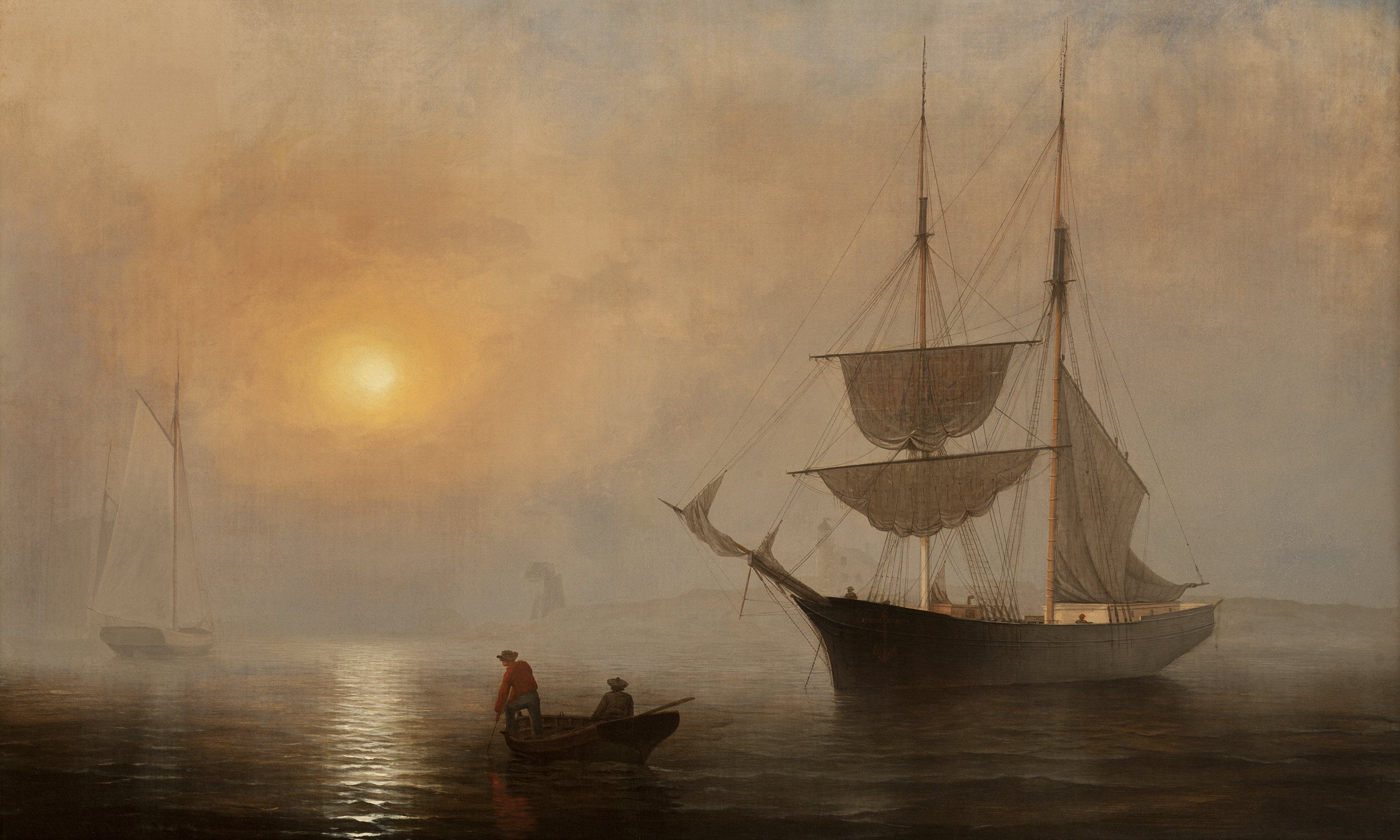 Fitz Henry Lane’s masterpiece Ship in Fog, Gloucester Harbor is an archetype of Luminism, a style characterized by an intense preoccupation with light and atmosphere that flourished among a group of American painters between 1850 and 1875. Luminist artists evinced an acute awareness of the natural world and sought to unite matter and spirit through a focus on atmospheric effects, captured in works rendered with great subtlety and carefully wrought detail, often evoking a magical stillness. Aligned with the philosophical precepts of Ralph Waldo Emerson and the Transcendentalists, who saw nature as the ultimate expression of the divine, Luminist painters produced, in the sparsely peopled and sparely composed canvases they favored, perhaps the most meditative and captivating landscapes in American art.